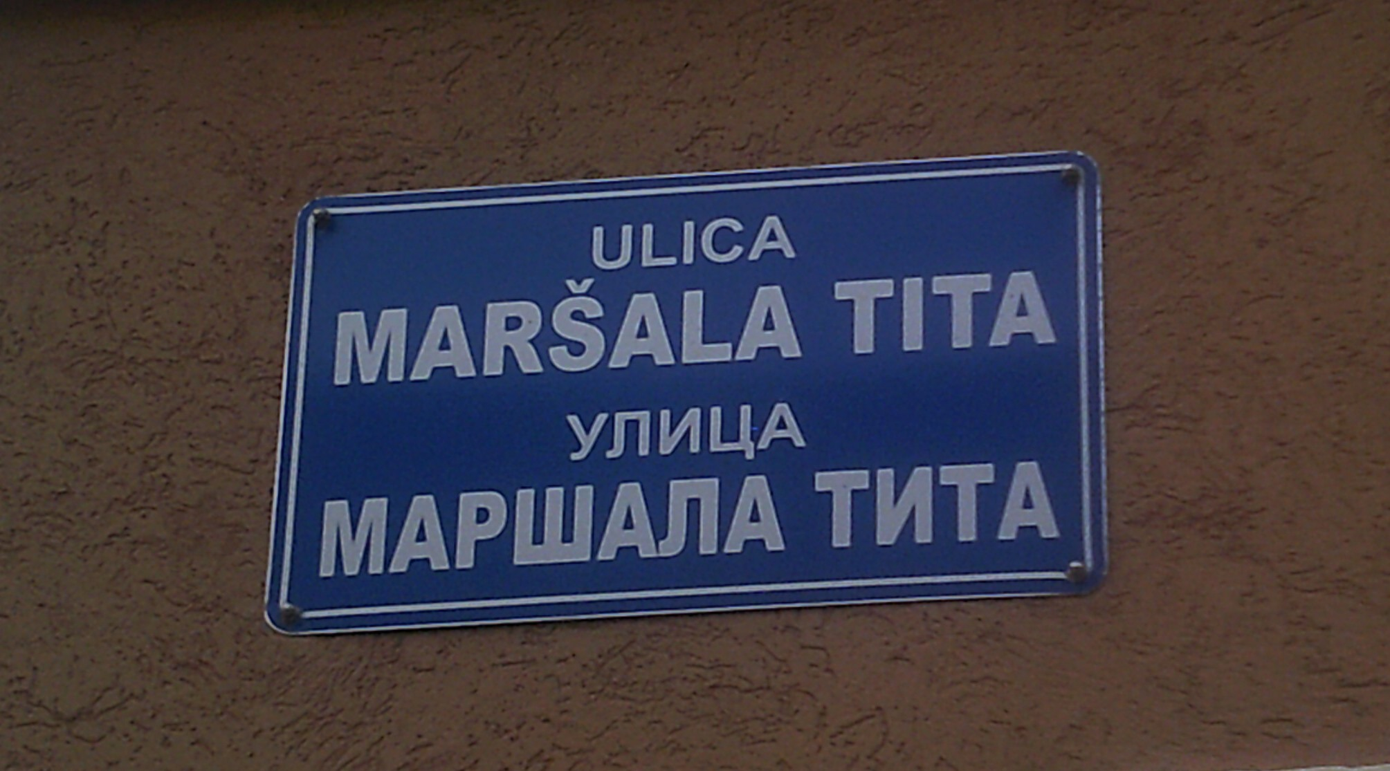 Street of Marshal Tito in Tivat. Monte Negro